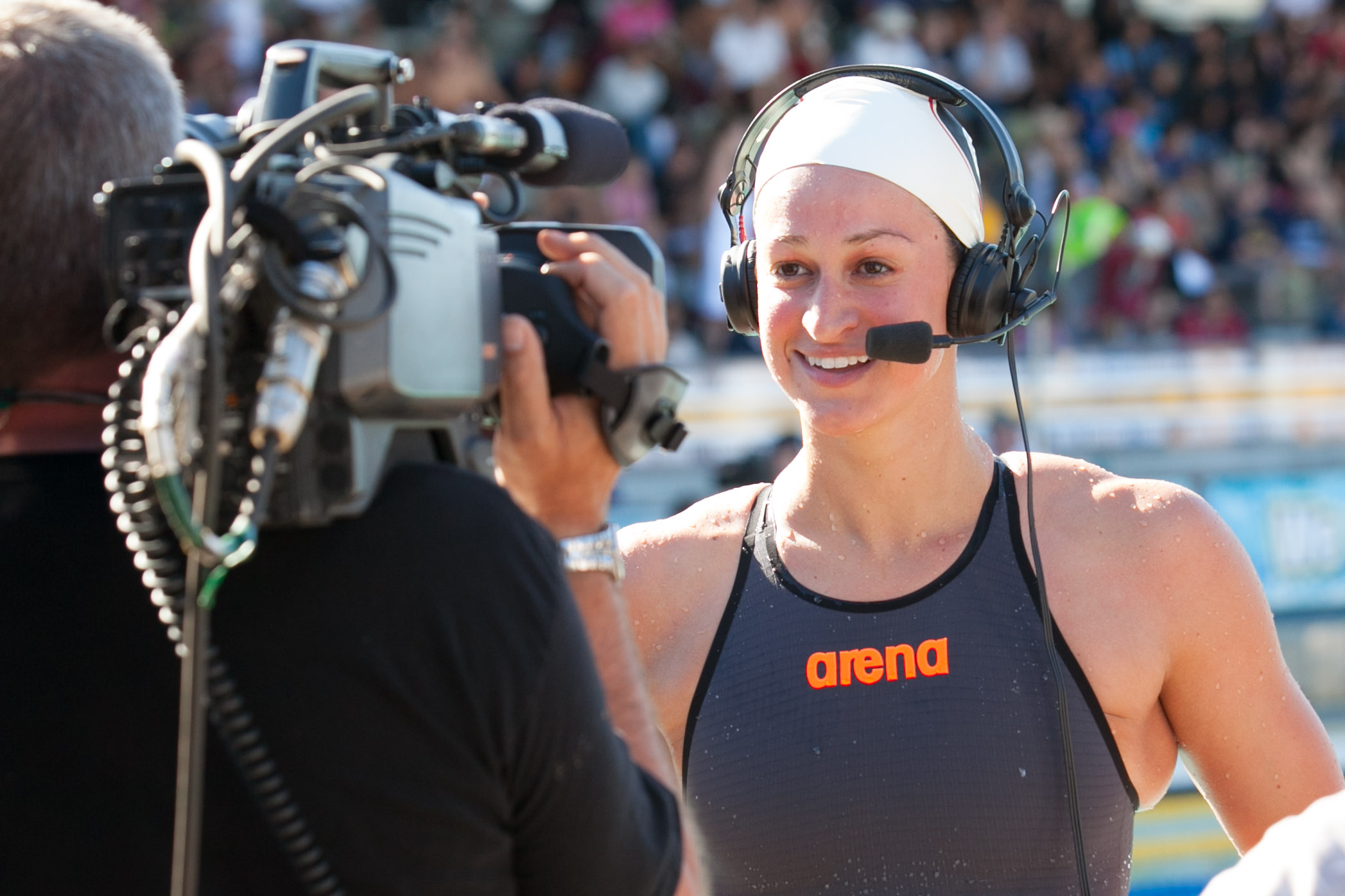 At the 2013 Santa Clara Grand Prix. Photo by JD Lasica.